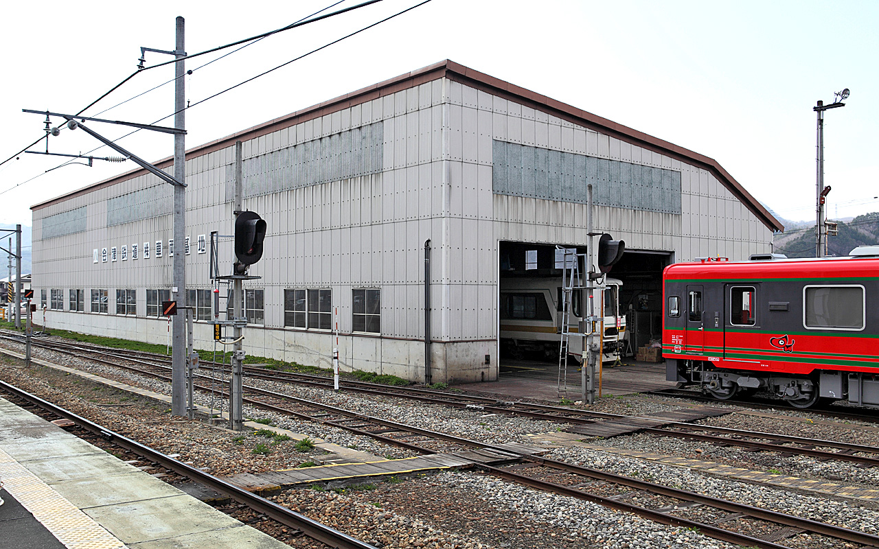 Aizu Railway Aizu-Tajima Depot